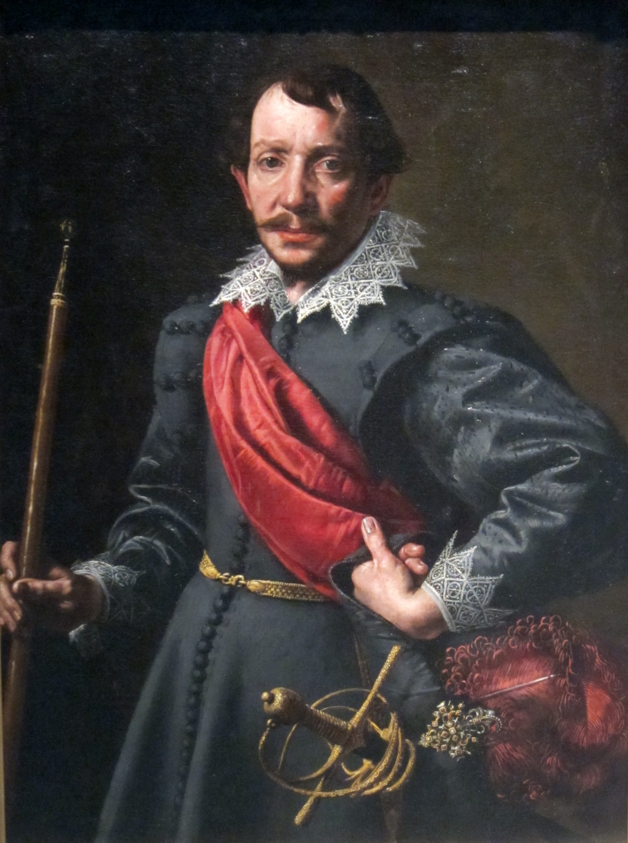 Portrait of a Man, oil on canvas painting by Antonio Tanzio da Varallo, c. 1620, Cleveland Museum of Art